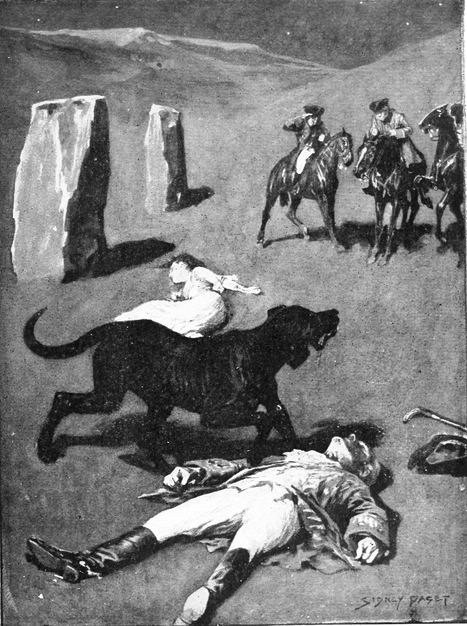 An page scan of a book The Hound of the Baskervilles by Arthur Conan Doyle. Illustration appeared in The Strand Magazine in August, 1901. Original caption was "THERE IN THE CENTRE LAY THE UNHAPPY MAID WHERE SHE HAD FALLEN." image cropped, captions removed, converted to b&w